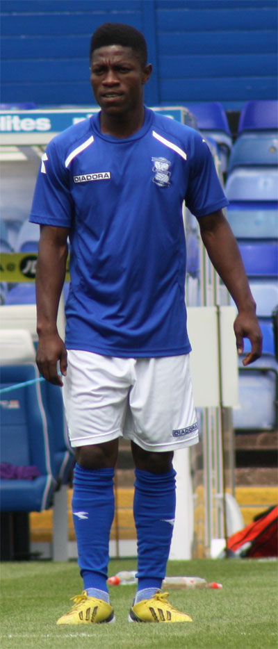 Koby Arthur vs Hull in Birmingham City pre-season.